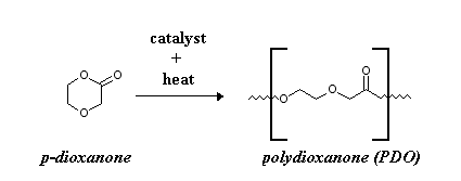 Scheme of ring opening polymerization of polydioxanone from p-dioxanone. Selfmade by User:Berserker79